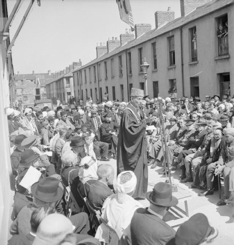 Muslim Community- Everyday Life in Butetown, Cardiff, Wales, UK, 1943 Sir Hassan Suhrawardy, Adviser to the Secretary of State for India, stands at a microphone as he speaks to the audience which lines the narrow Peel Street, during the civil opening ceremony of the new Mosque. Behind the audience, the densely-packed terraced houses of the street can be clearly seen, with some of the inhabitants watching the proceedings from their upstairs windows.